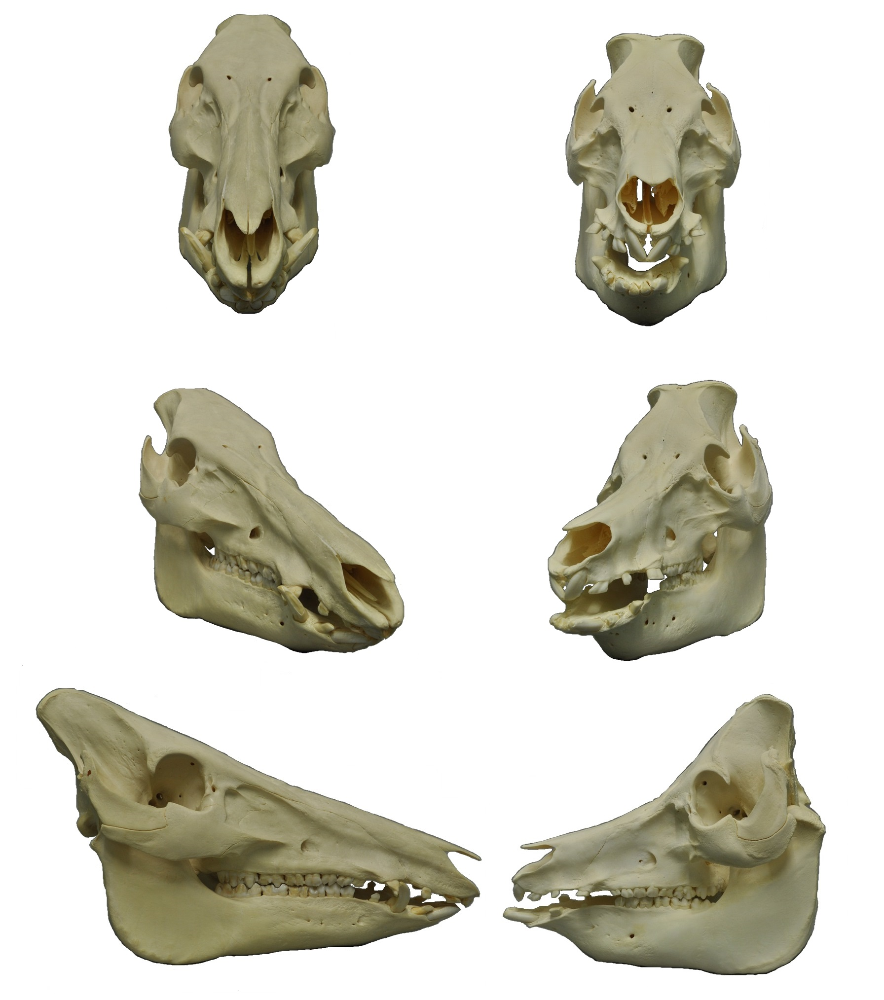 Wild boar and domestic pig skulls, Coll. Museum Wiesbaden